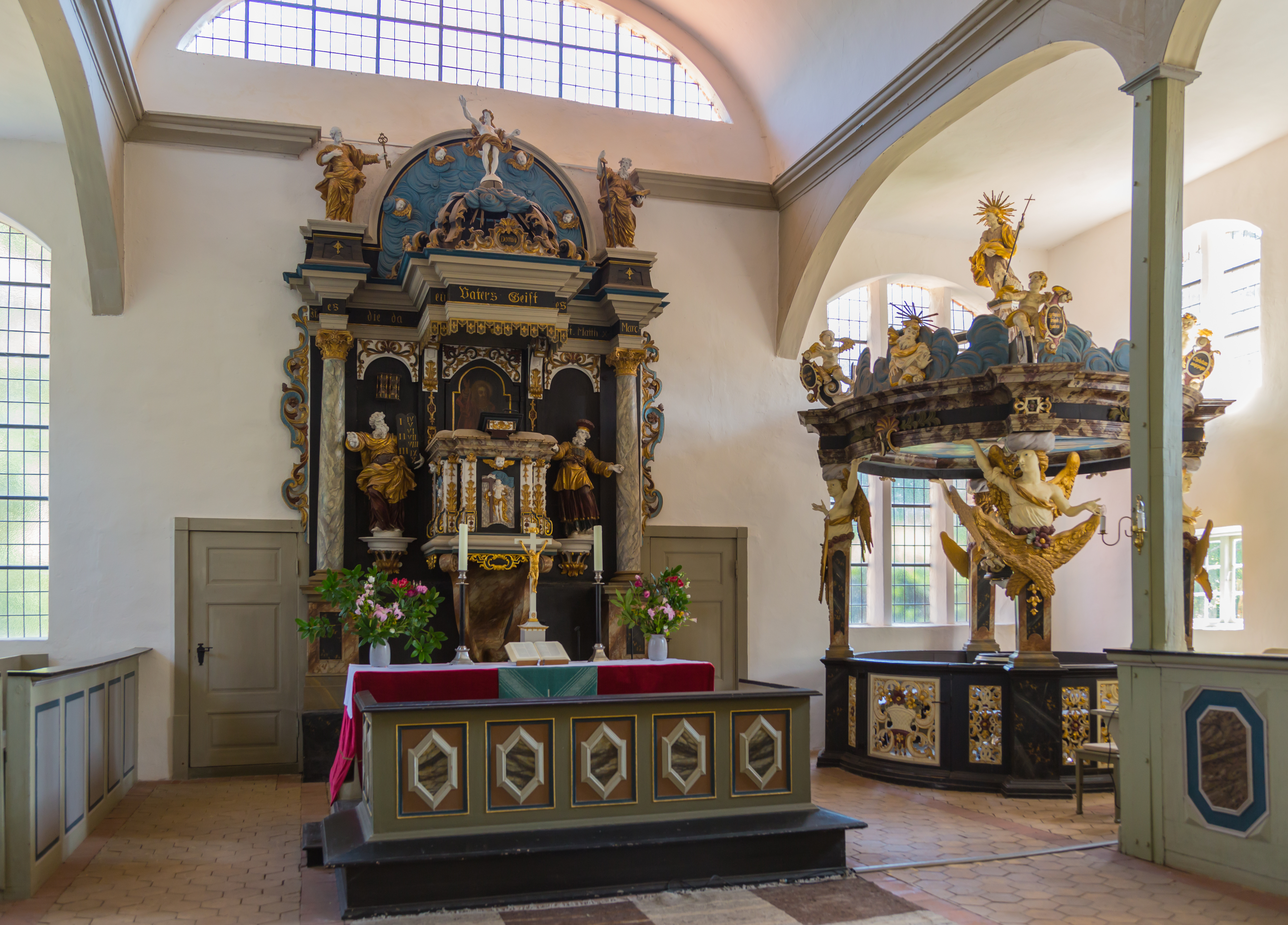 The baroque pulpit altar and baptismal font of the Protestant Seamen's Church (Seemannskirche) in Prerow, Landkreis Vorpommern-Rügen, Mecklenburg-Vorpommern, Germany.